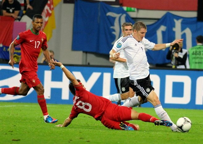 Match between Germany and Portugal during UEFA Euro 2012 that took place in Lviv. Final score was 1:0 (Gómez).